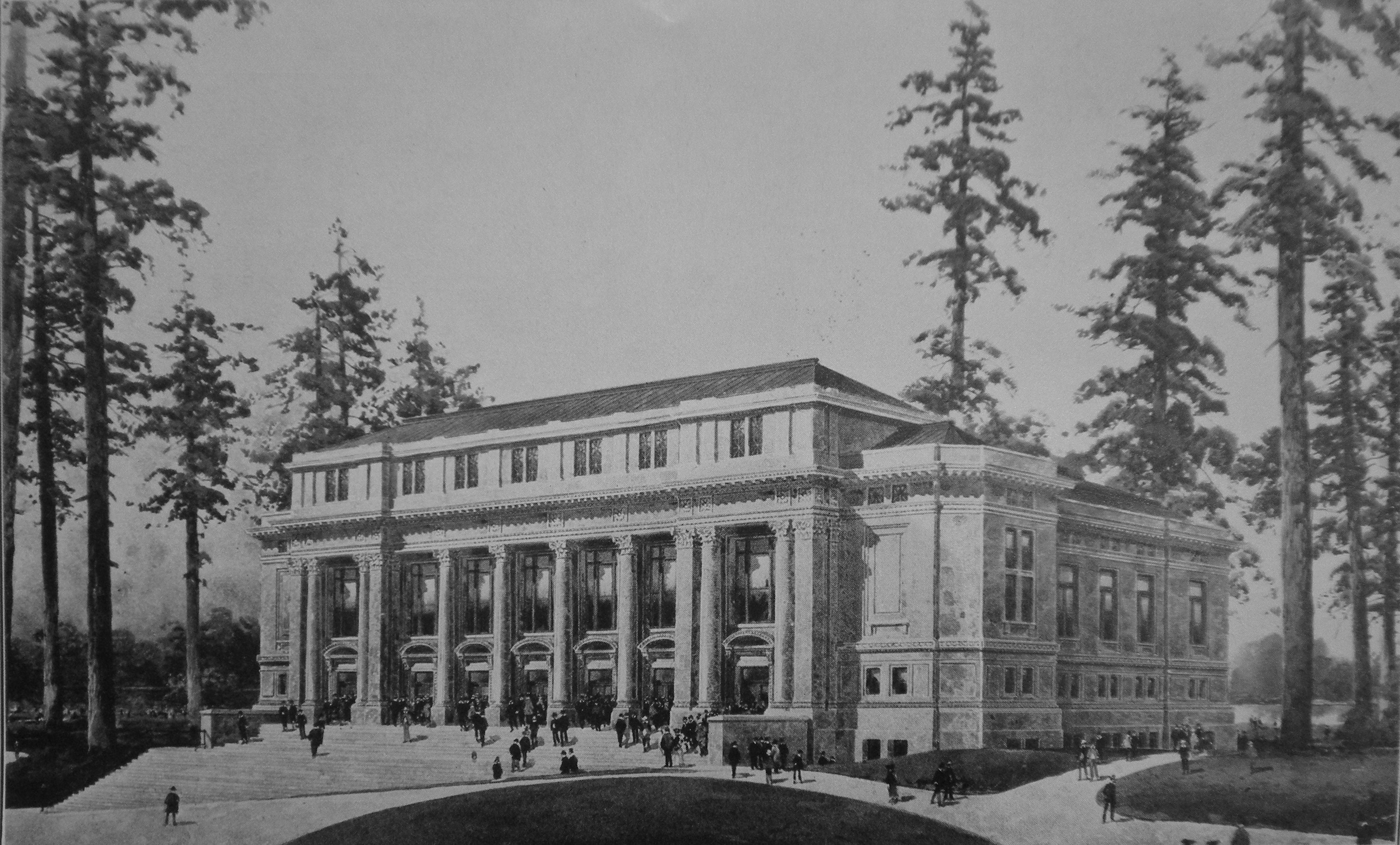 The Alaska-Yukon-Pacific Exposition auditorium building (later the first Meany Hall, University of Washington). This appears to be a drawing rather than a photo, and may predate the construction of the building.